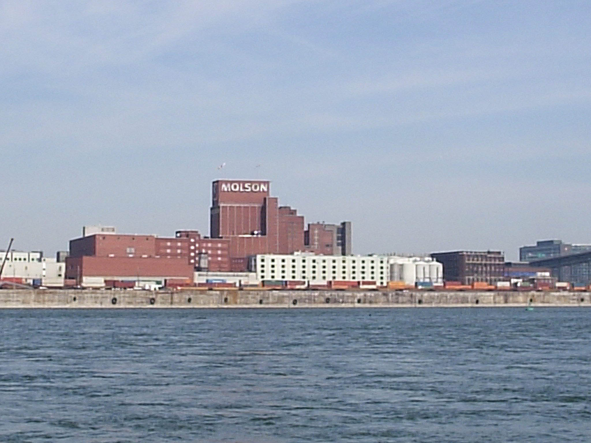 Molson Brewery Montreal